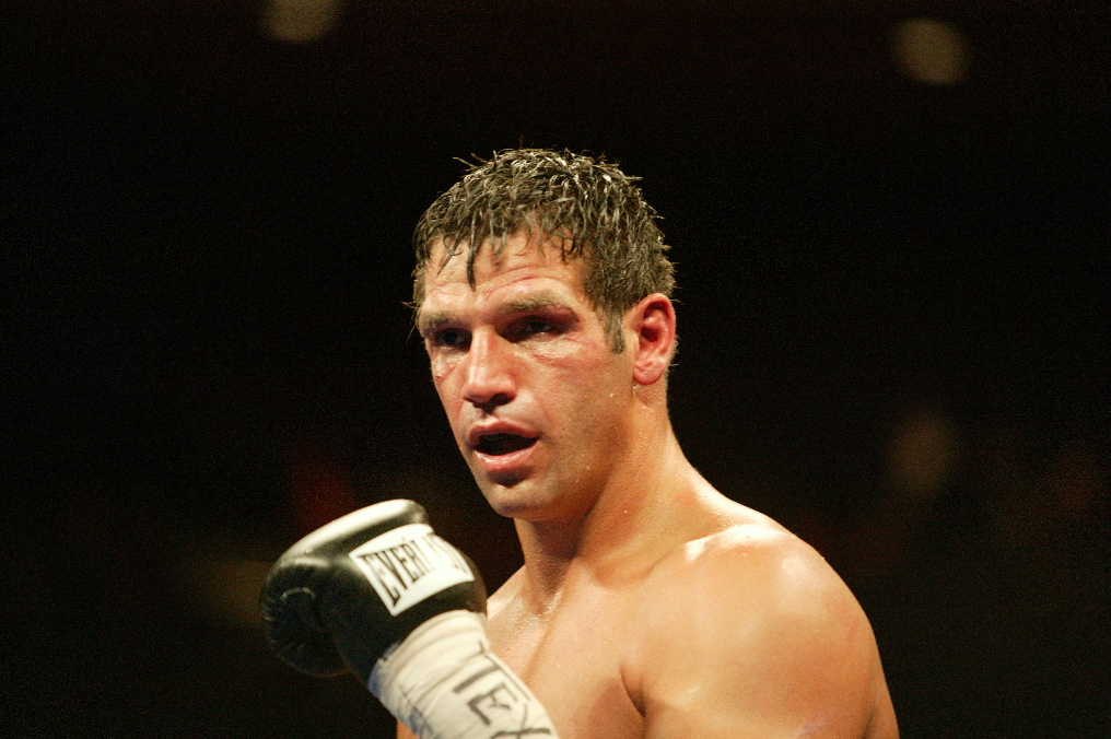 Lou Savarese on in El Paso, TX fighting Evander Holyfield